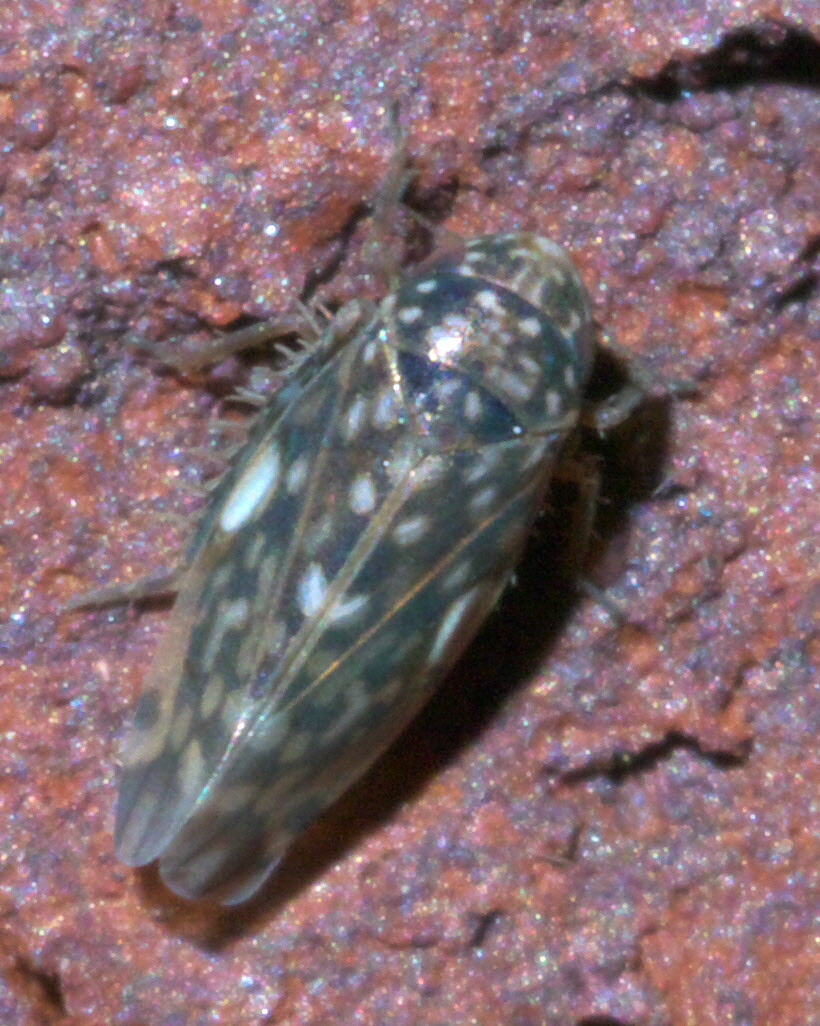 Xestocephalus lunatus, Family: Leafhoppers, Size: 2.8 mm, ID Confidence: 90